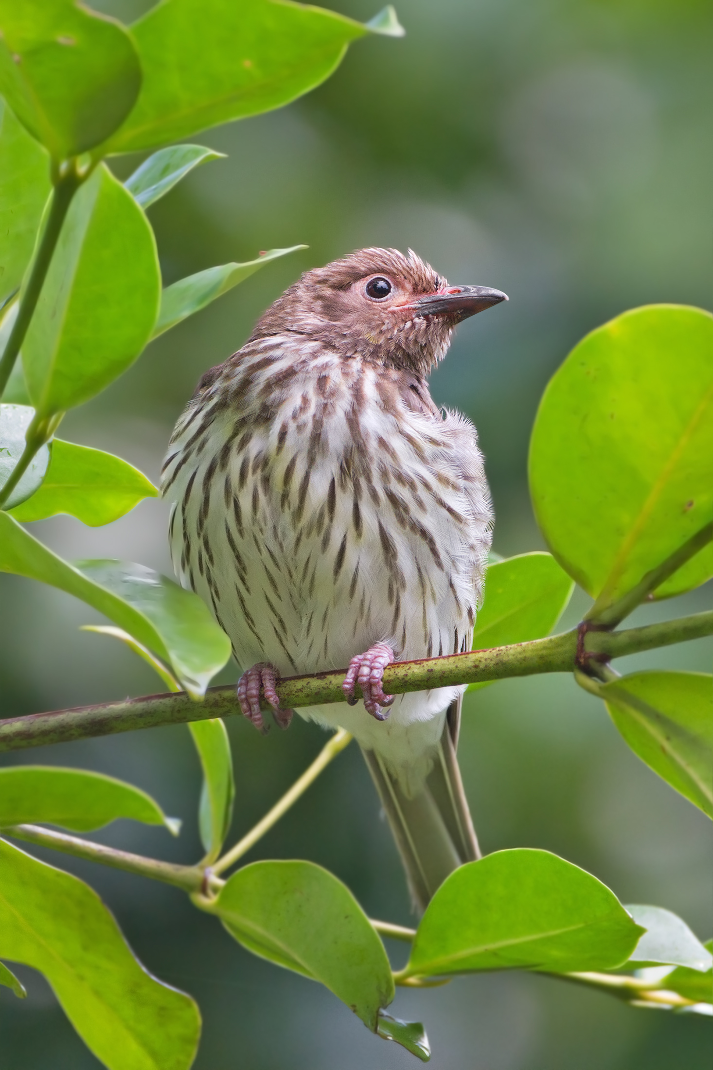 Australasian Figbird (Sphecotheres vieilloti) female, Daintree Villiage, Queensland, Australia